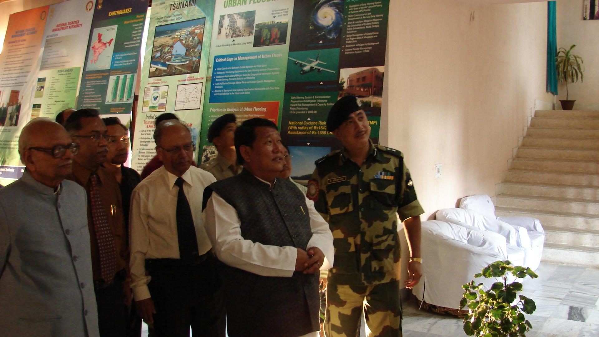 NDRF Exhibition on Disaster Awareness at Itanagar